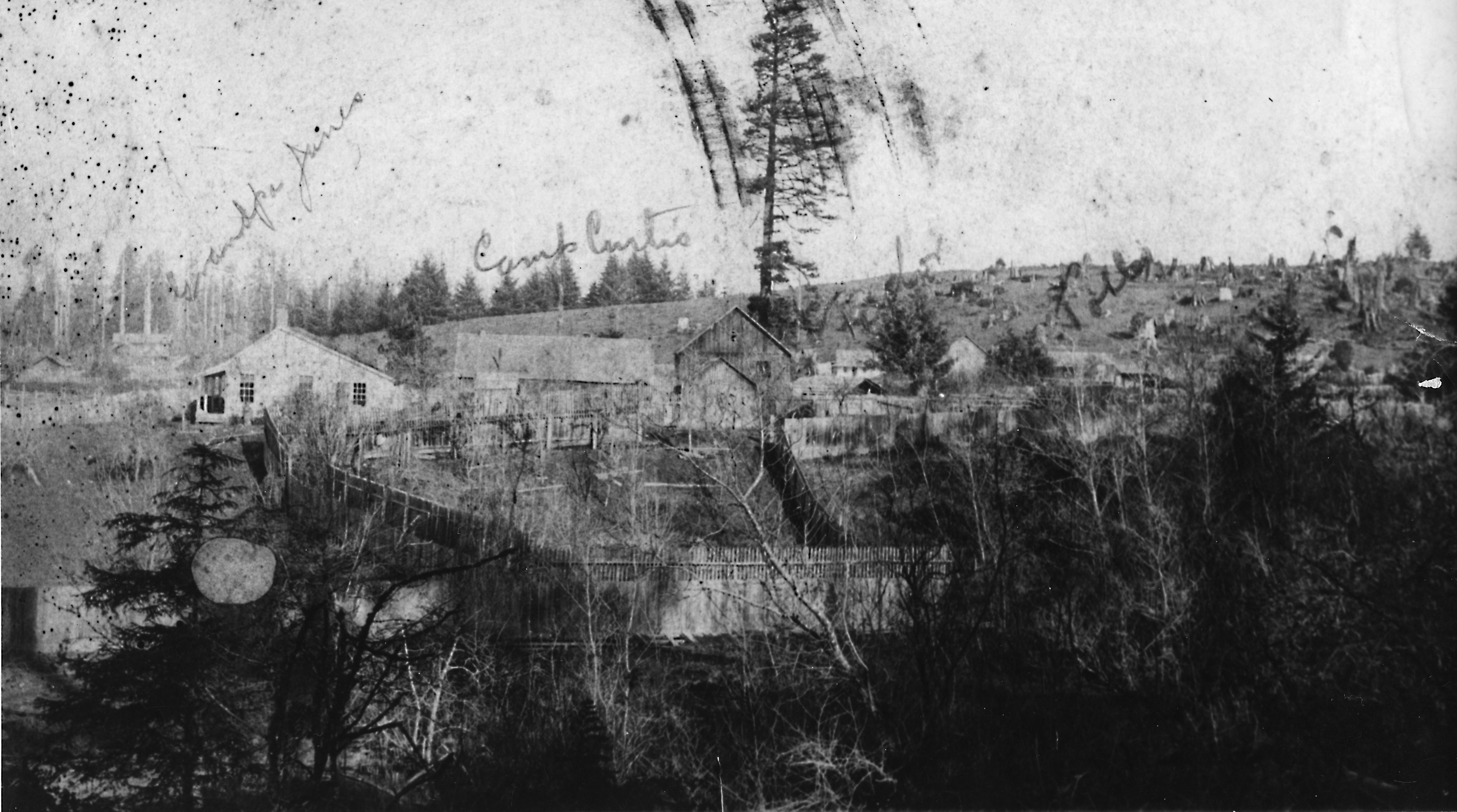 A photograph of Camp Curtis identified by the Janes grandson showing the location of the farmhouse relative to the Militia camp.